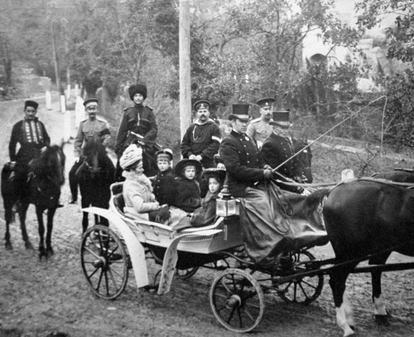 Members of the Czar's Nicolas II Romanov Family while visiting Odessa 1914. The factual accuracy of this description or the file name is disputed.Reason: Please see the relevant discussion on the talk page.